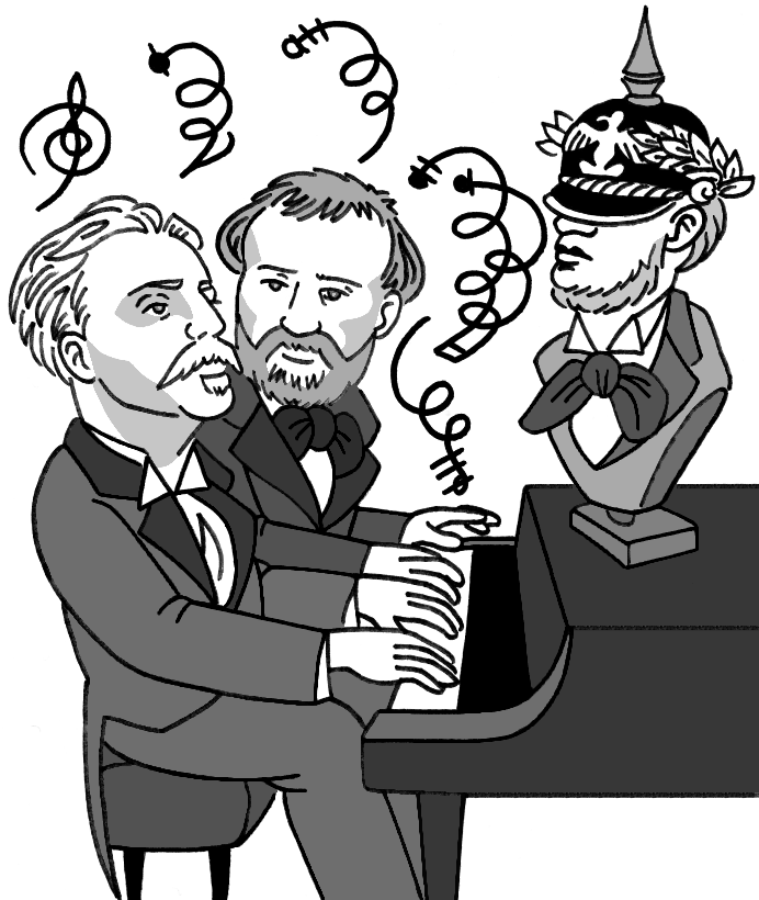 Caricature of three characters: Emmanuel Chabrier and Gabriel Fauré playing the same piano as Richard Wagner bust rests his eyes covered with a spiked helmet with laurel